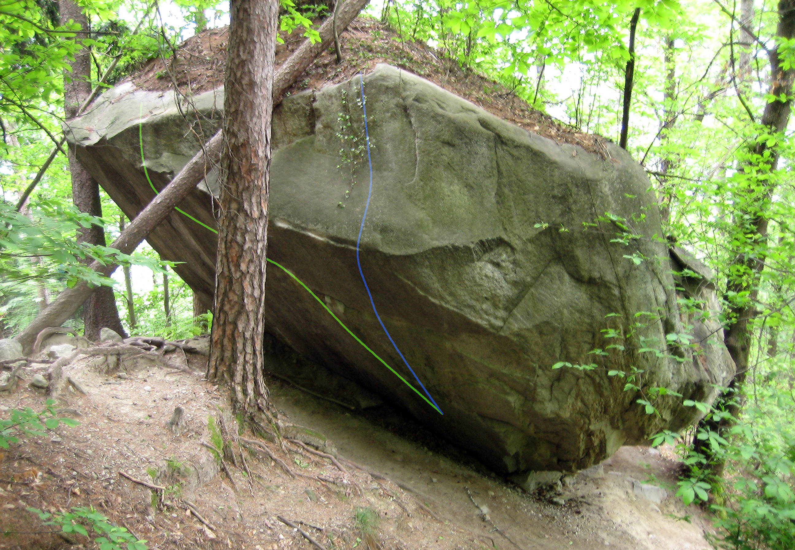 Dreamtime Boulder in Cresciano, opened by Fred Nicole in 2000